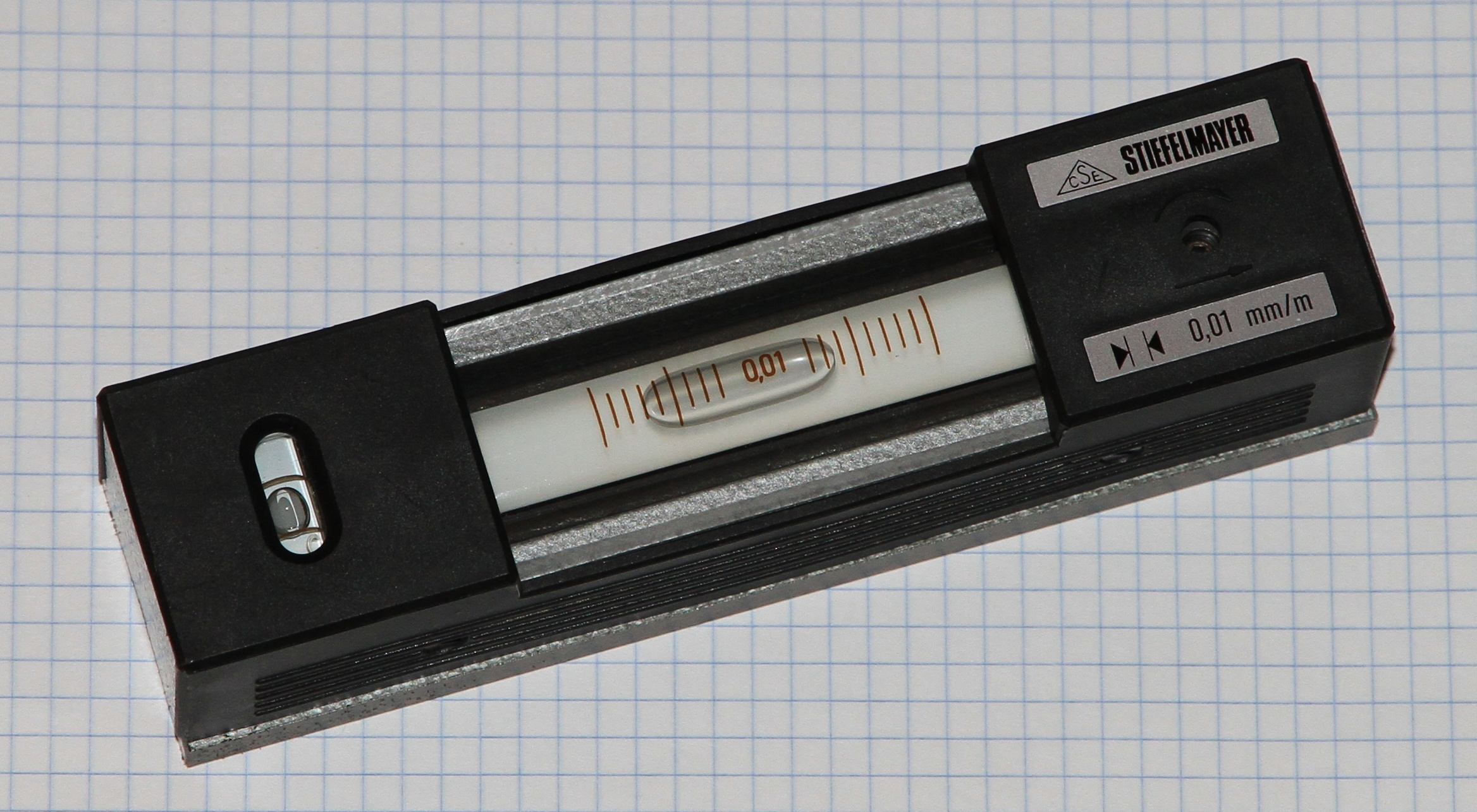 Stiefelmayer engineers spirit level. This one with a very high precision of 0.01 mm/m.